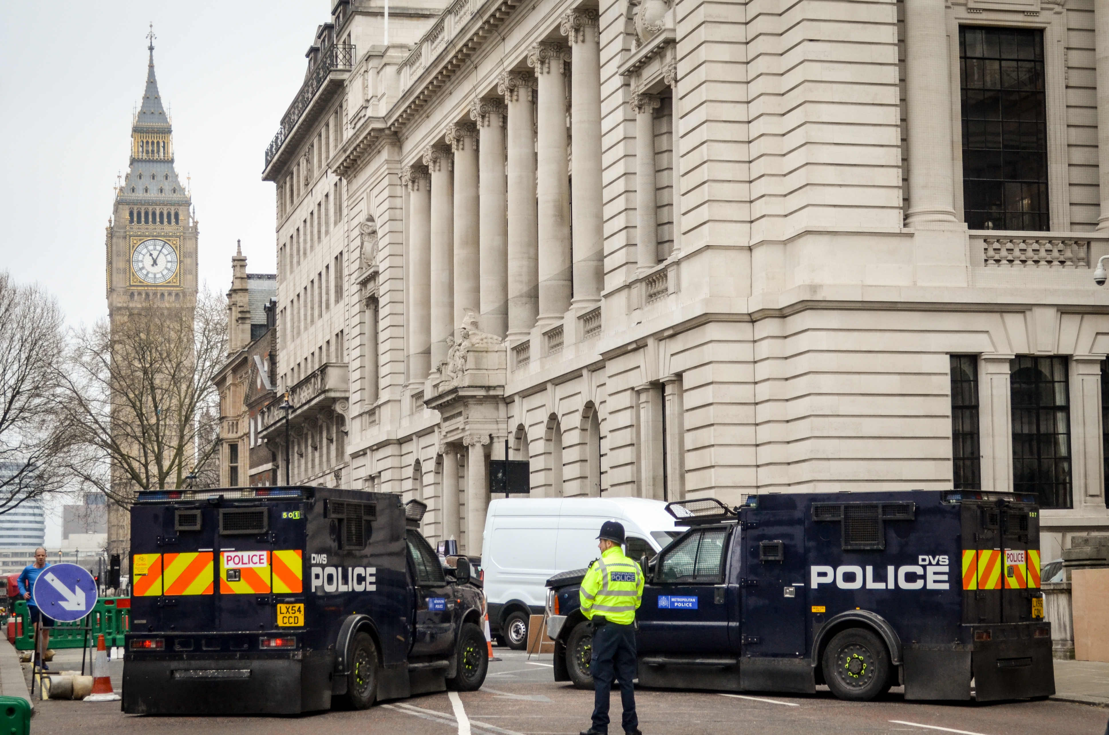 Metropolitation Police Service Jankel Guardian armoured vehicles guard roads around Parliament Square following the Westminster attack on 22 March 2017. The Jankel Guardian is based on a Ford F-450 chassis.